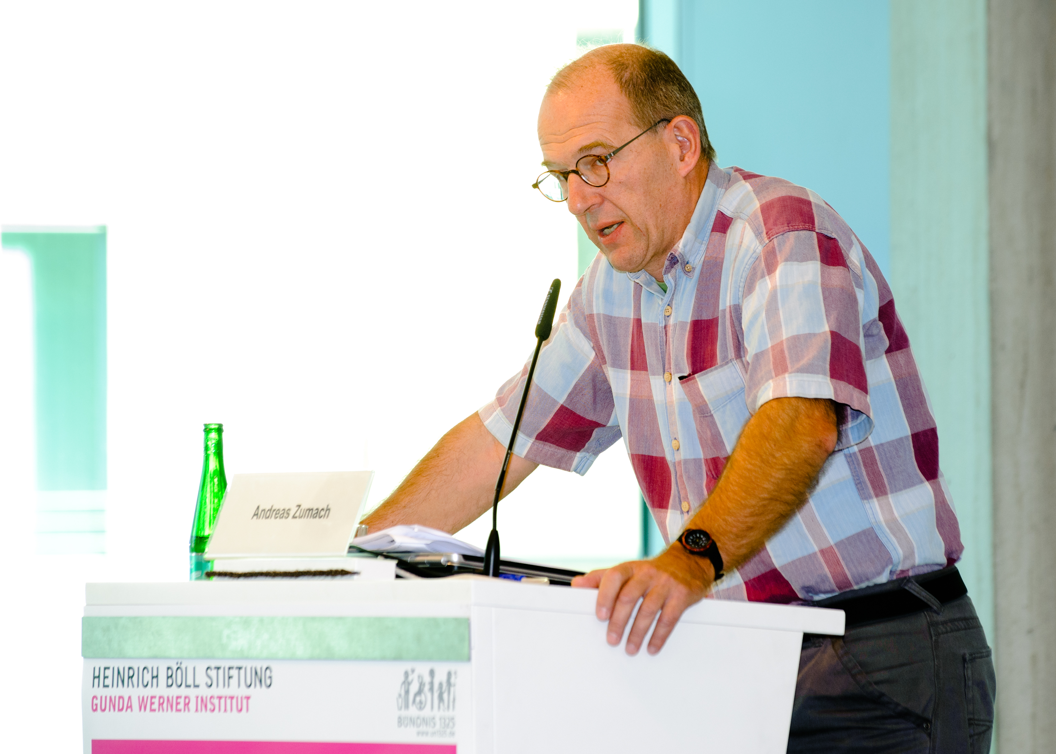 Picture: Stephan Röhl